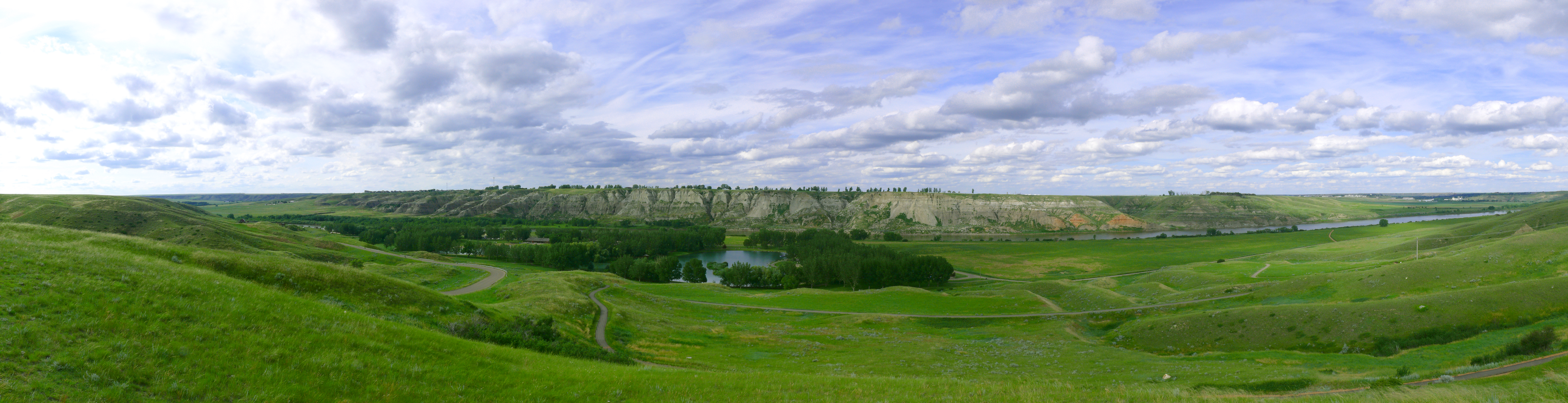 Facing Due North outside Medicine Hat, Alberta at Echodale Park. Coords: +50° 2' 46.32", -110° 46' 54.17"